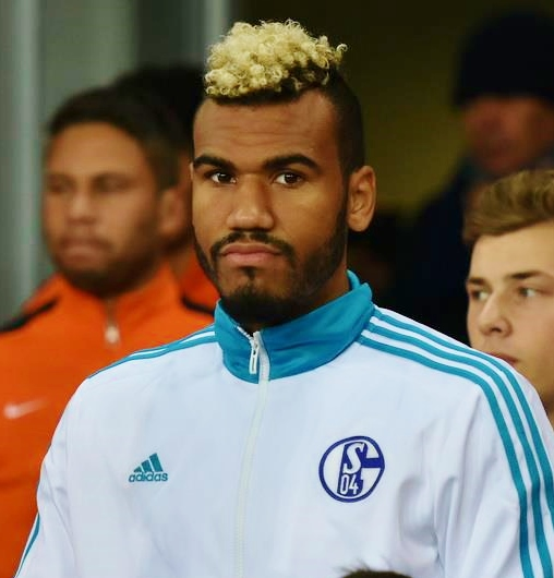 Maxim Choupo-Moting